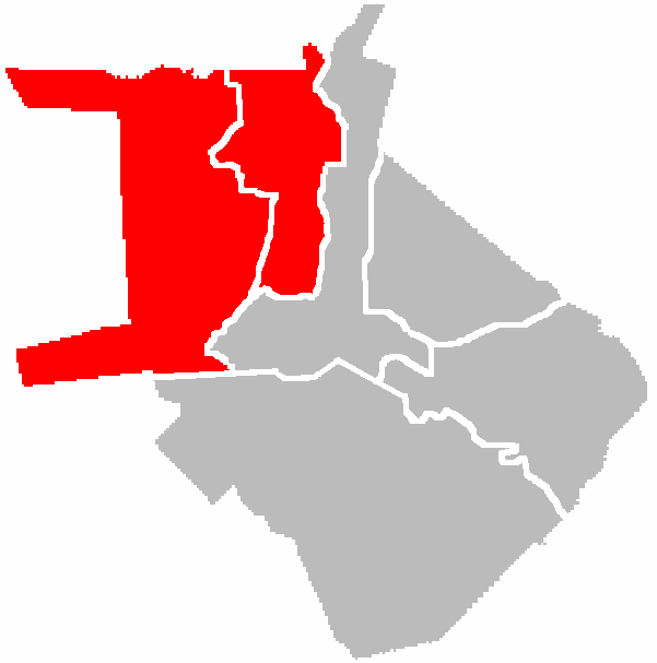 Map of Manila showing its first and second legislative district.